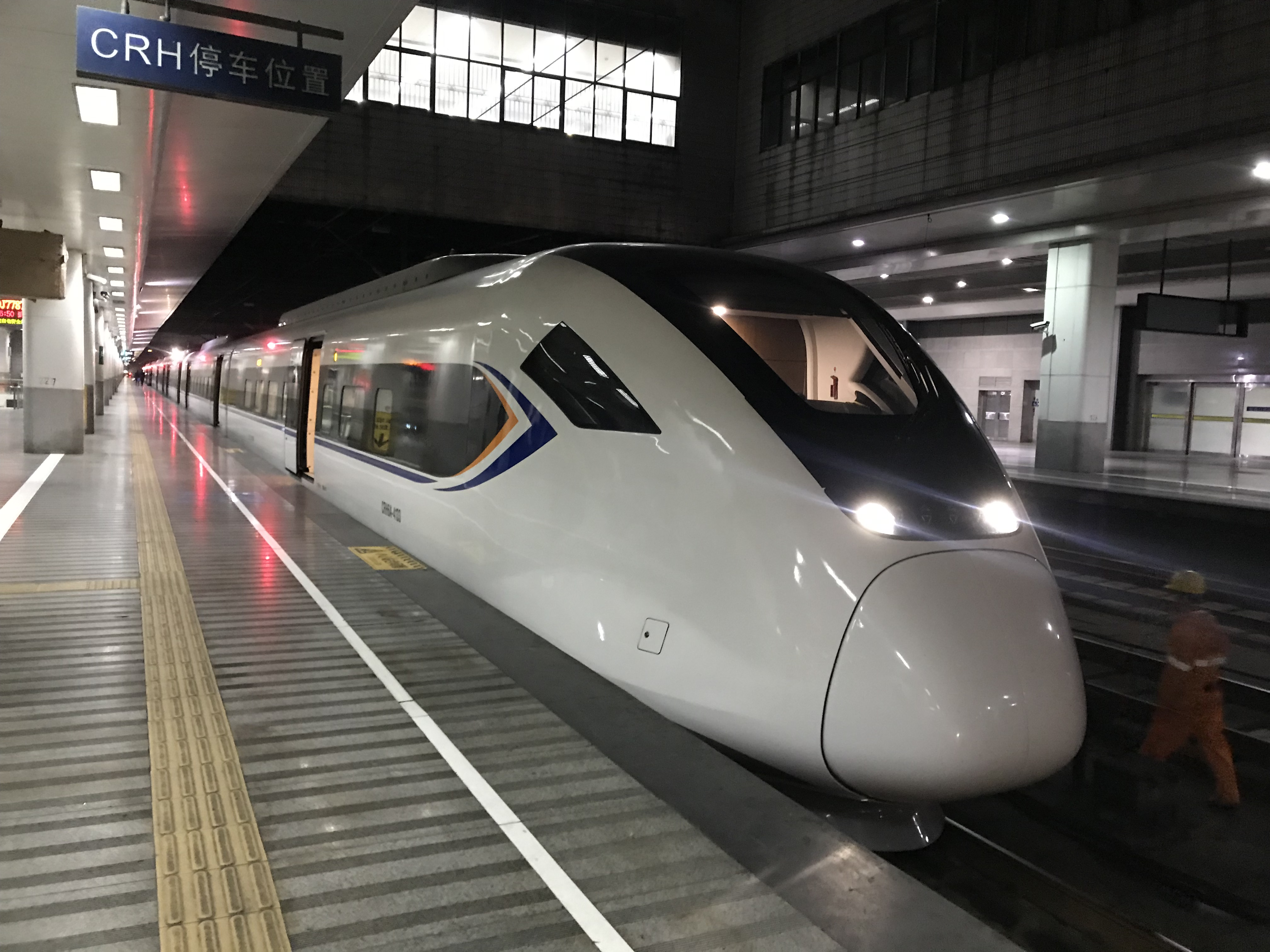 201901 CRH6A-4133 as DJ7787 from Guangzhoudong at Shenzhen Station